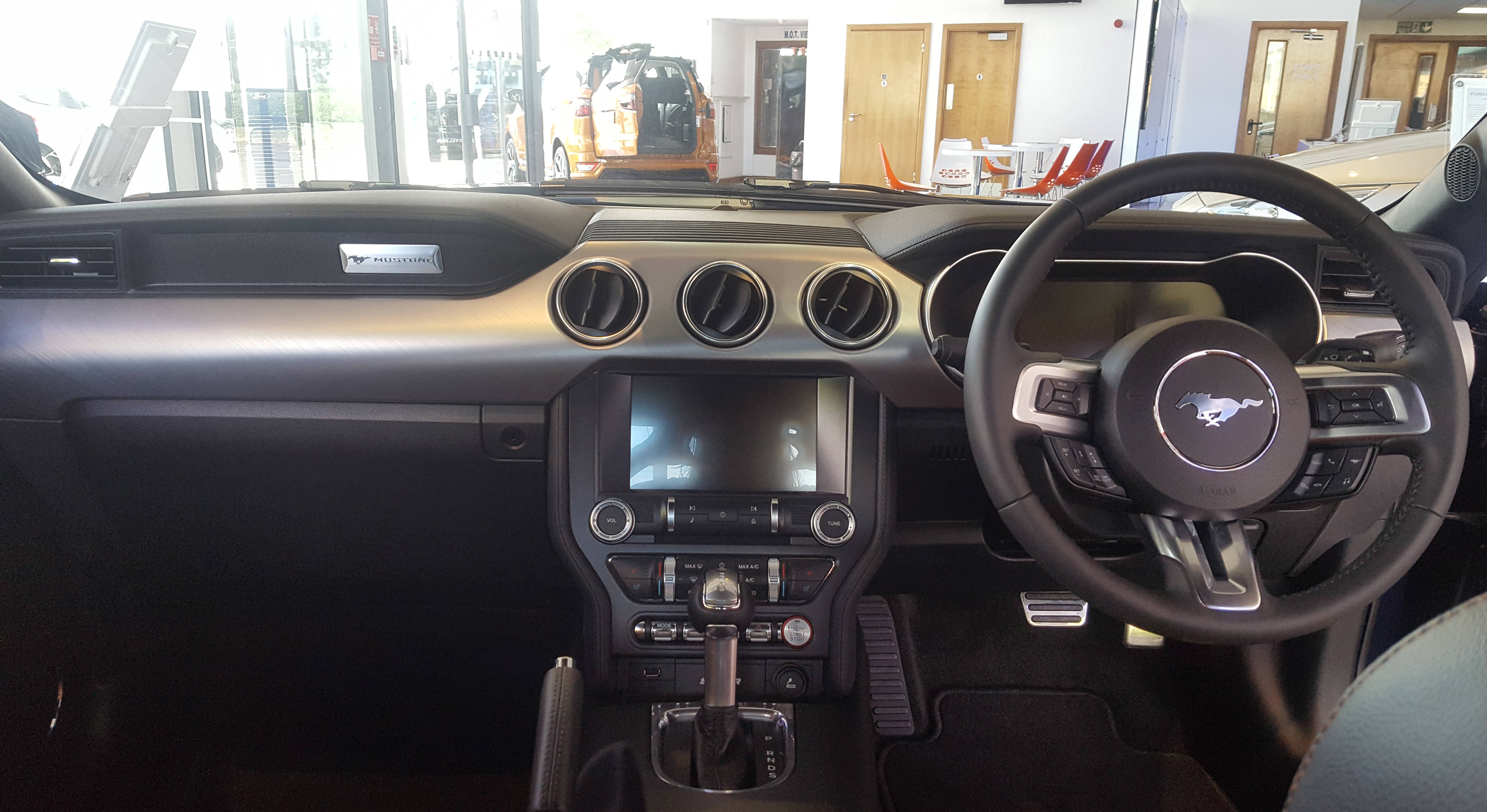 2018 Ford Mustang GT V8 5.0 facelift Interior